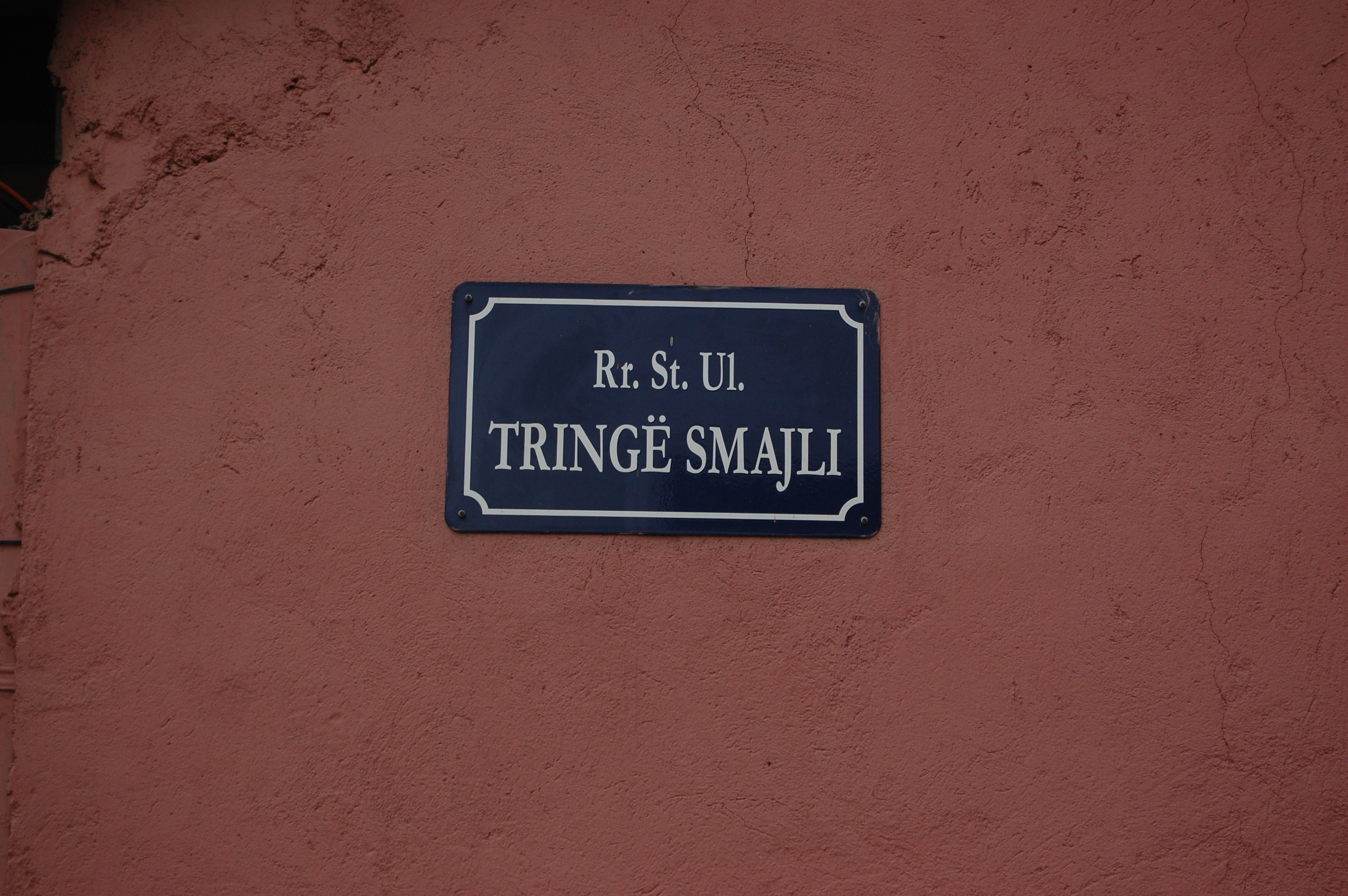 Street name plate, R. St. Ul Tringe Smajli, junction with Agim Ramadani Street, Pristina, Kosovo.